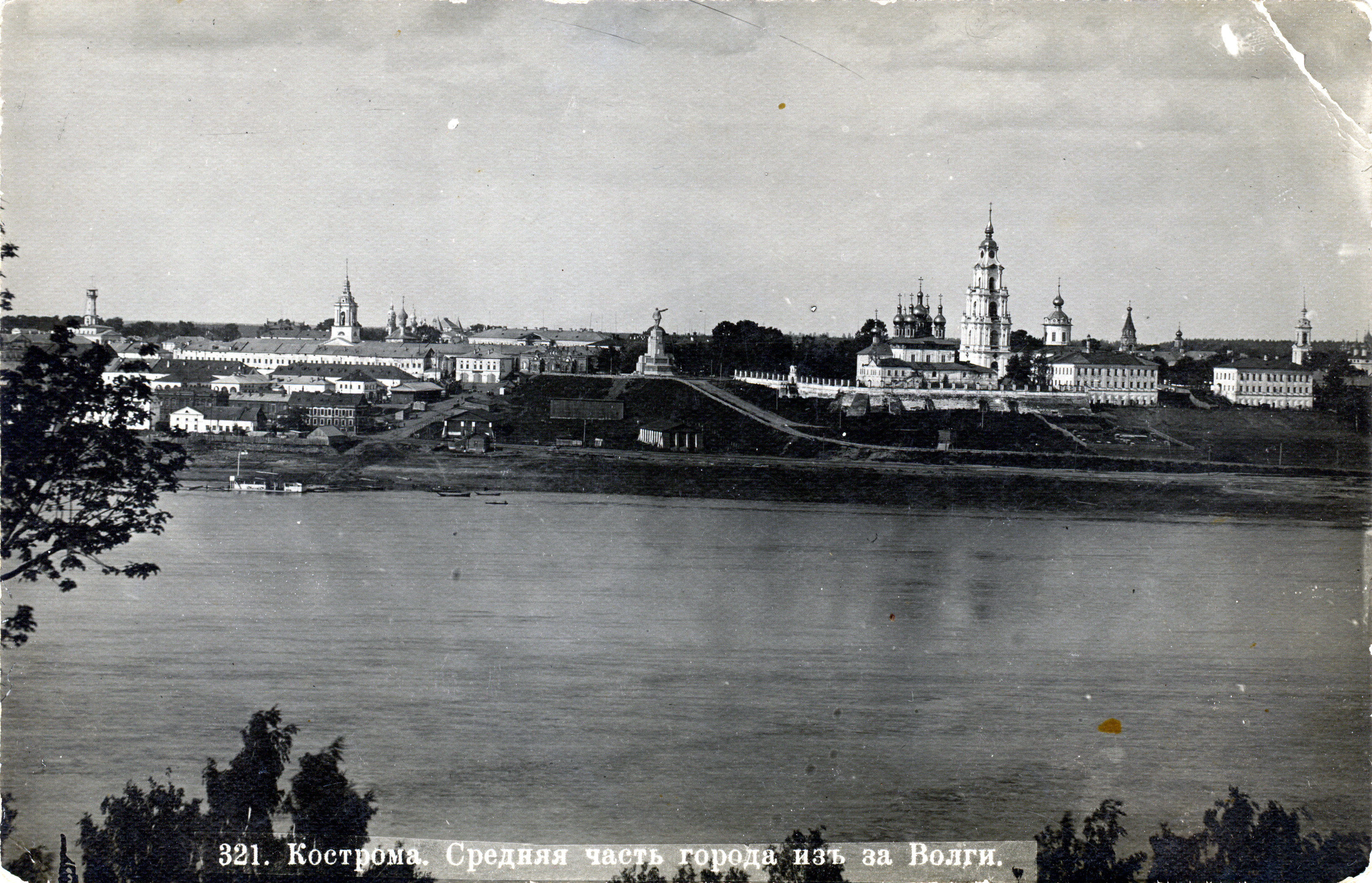 Central Kostroma from behind Volga river (between 1928 and 1934)